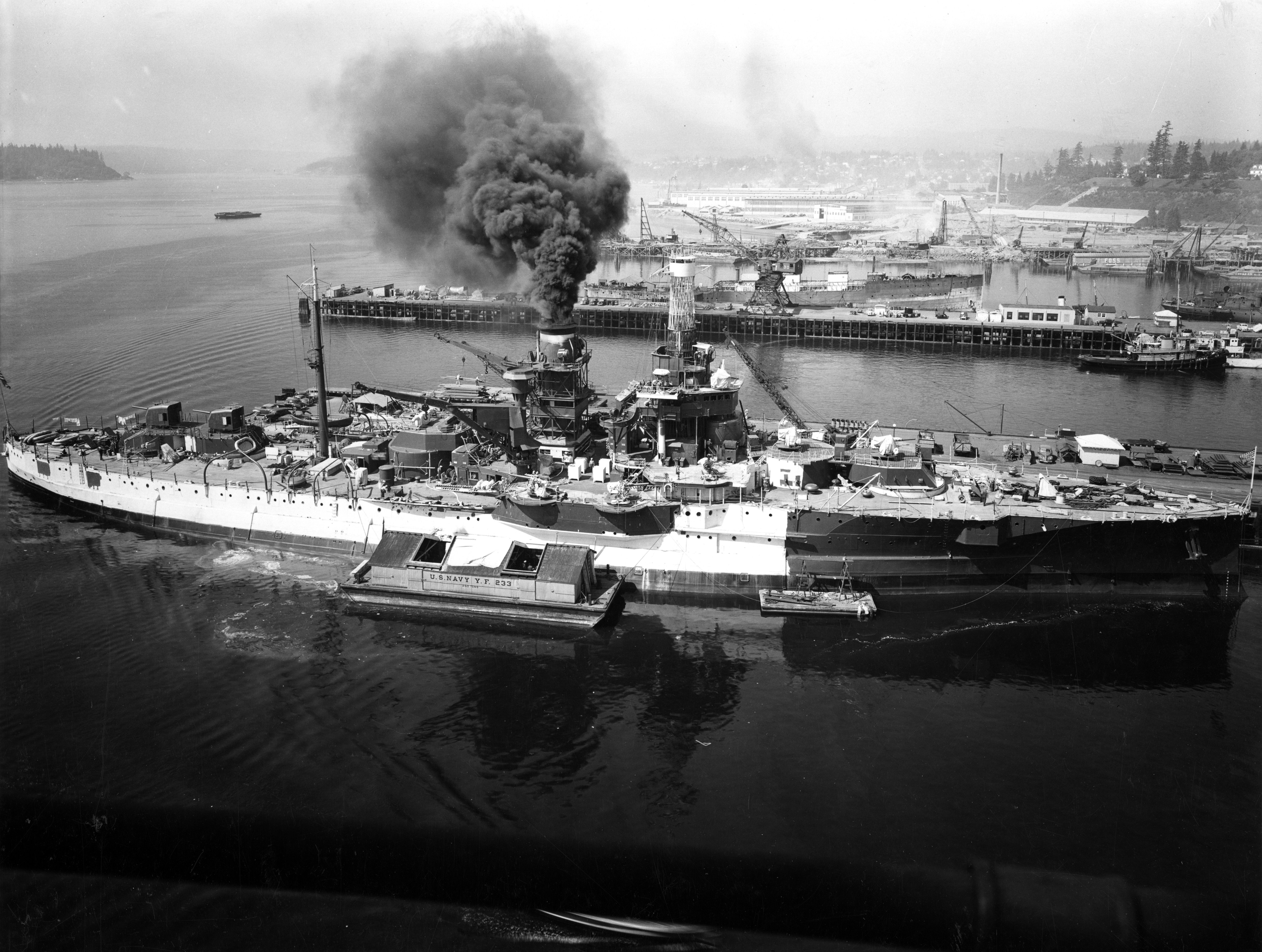 The U.S. Navy training ship USS Utah (AG-16) at the Puget Sound Naval Shipyard, Bremerton, Washington (USA), 18 August 1941. She has been rearmed and partially repainted into Measure 1 camouflage. The U.S. Navy lighter YF-233 is alongside, and USS Aroostook (AK-44) is being disassembled in the background.